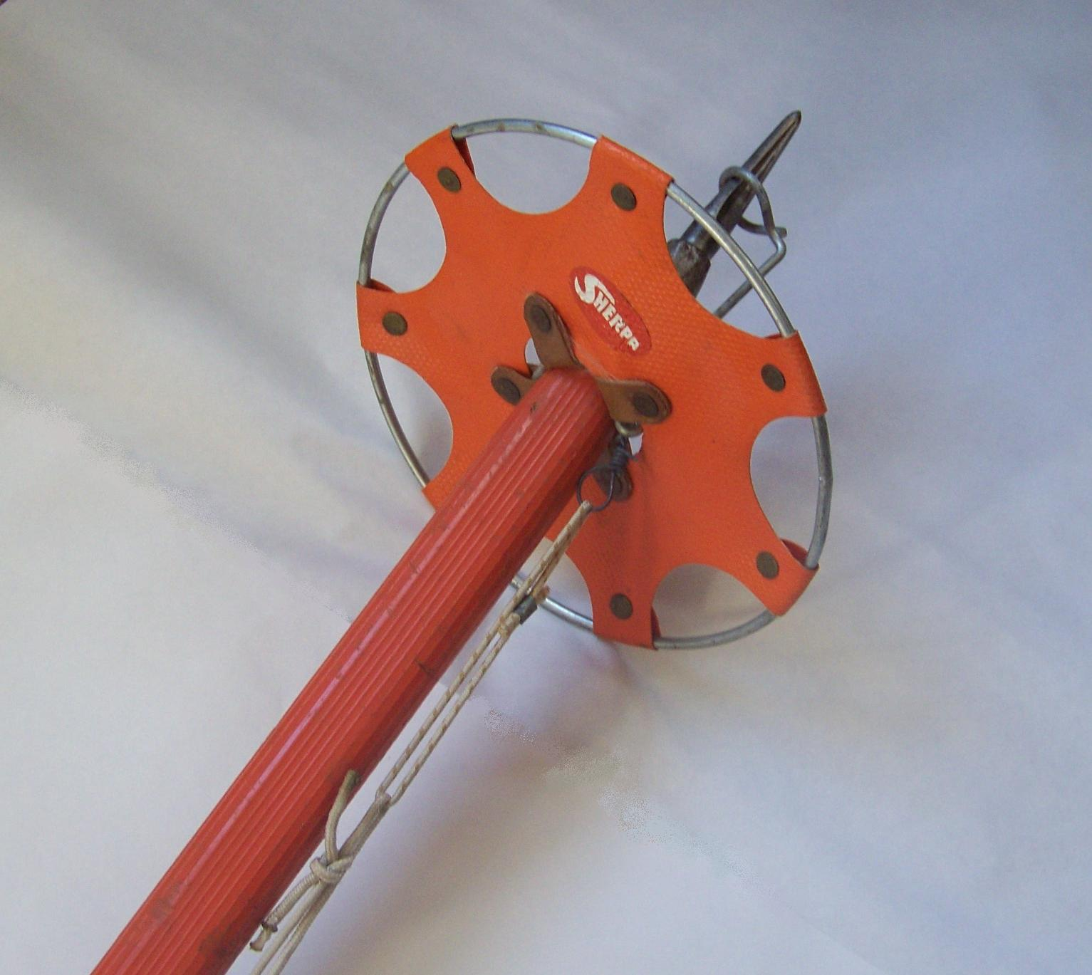 Photo of a removable ski basket installed on an ice axe. This accessory was manufactured by Sherpa, a snowshoe manufacturer. It allows the ice axe to be used as a ski pole for travel through soft snow